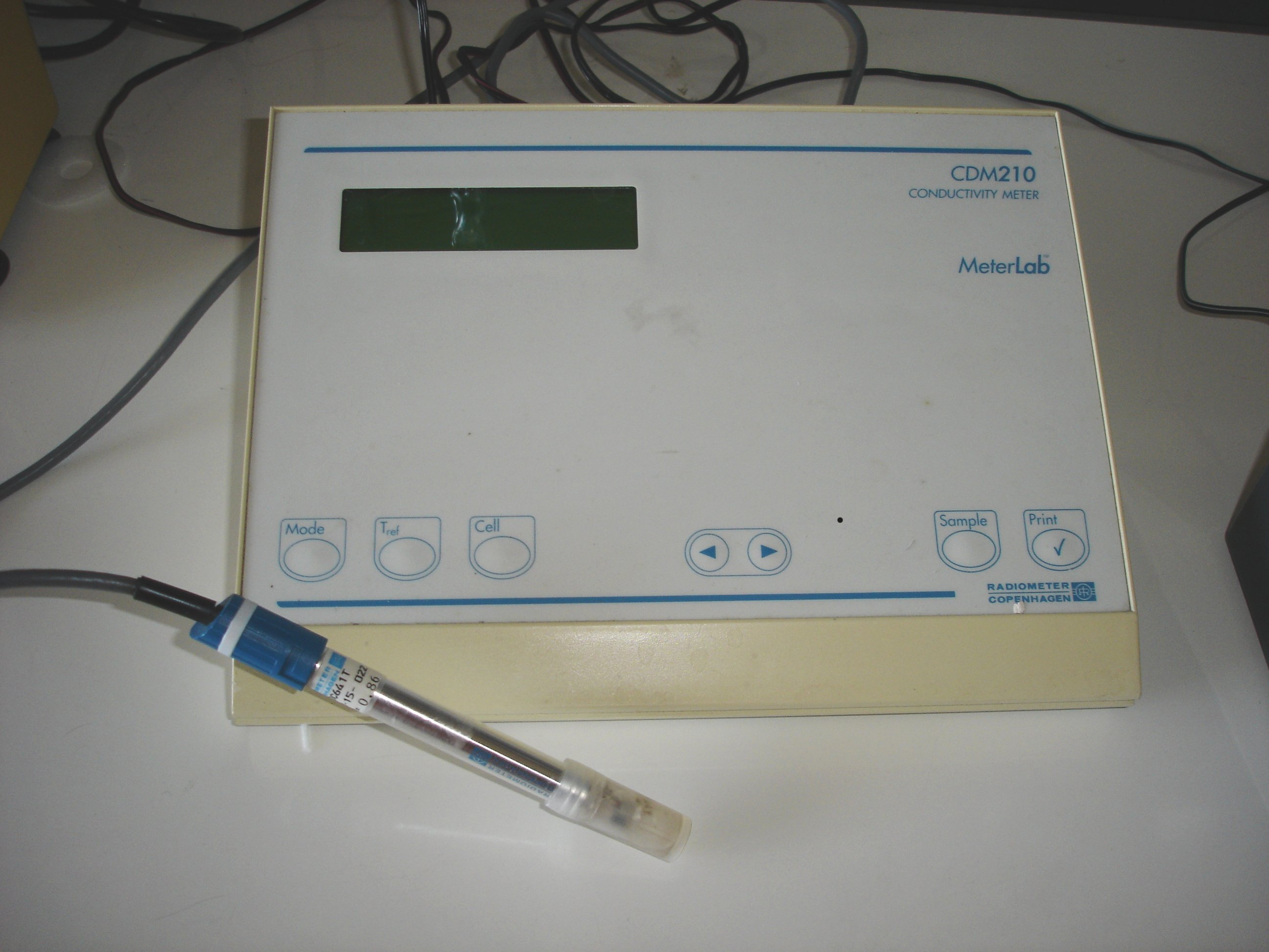 View of an electrical conductivity meter. Radiometer Copenhagen CDM210.